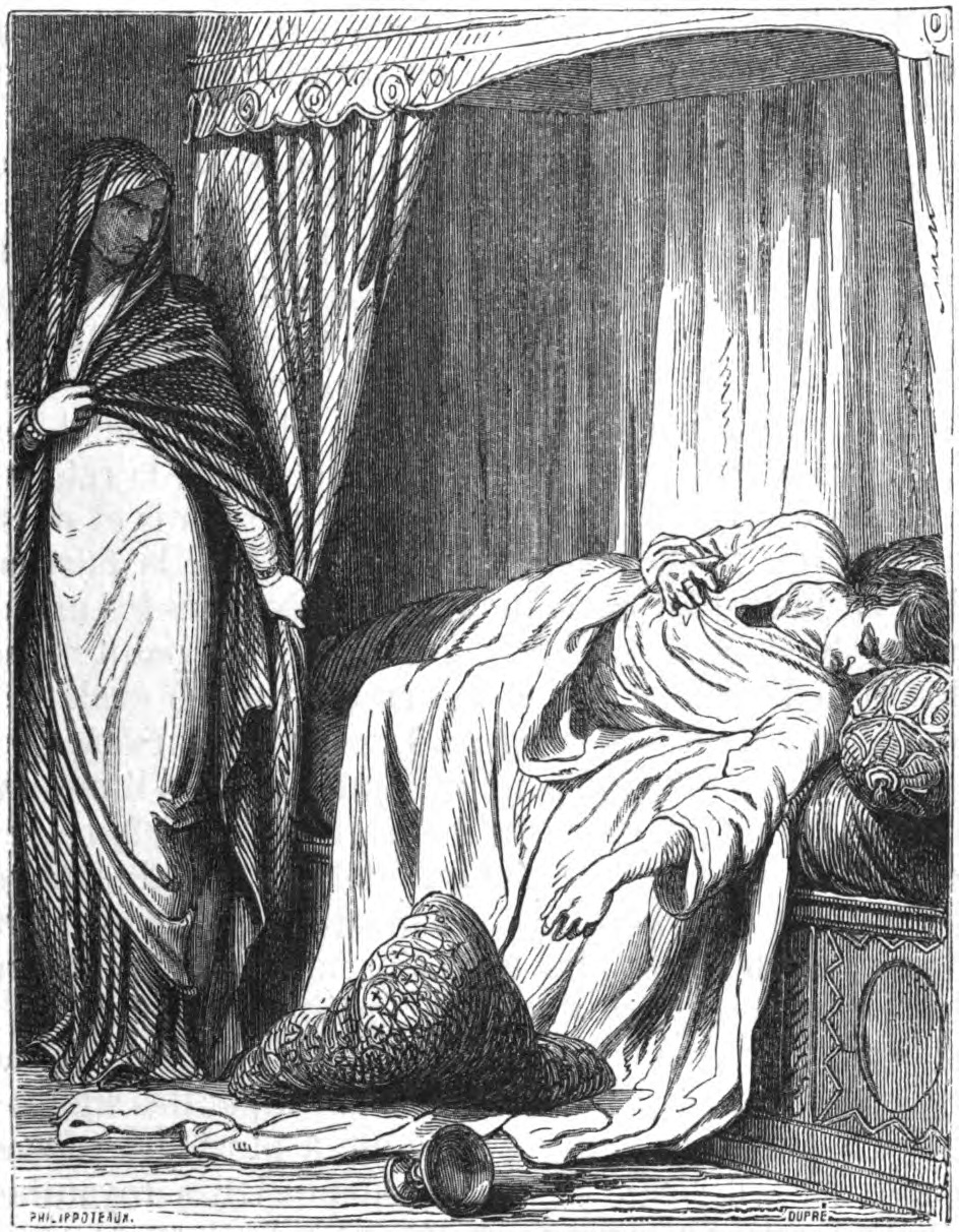 Original caption : Death of Louis the Lazy